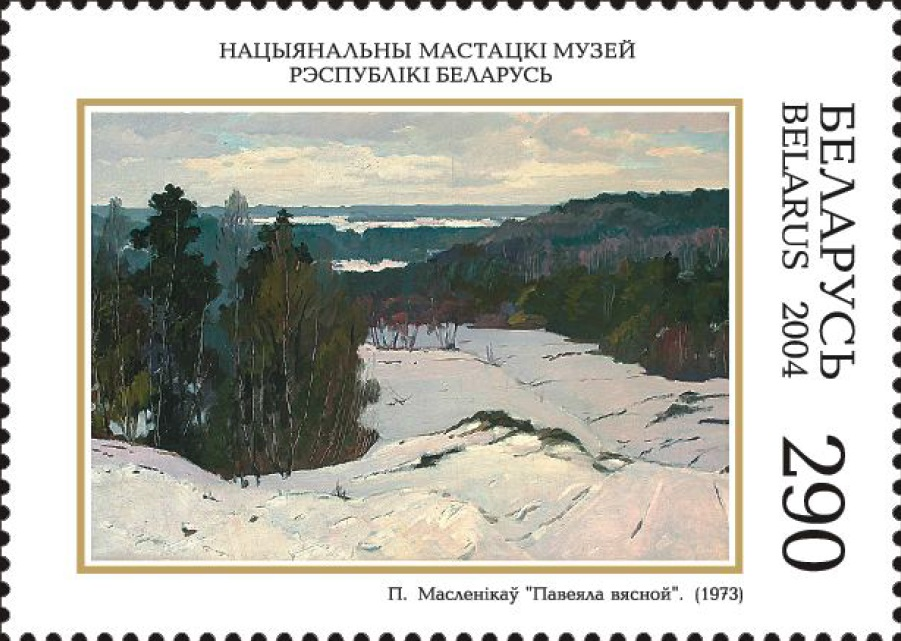 Stamp of Belarus